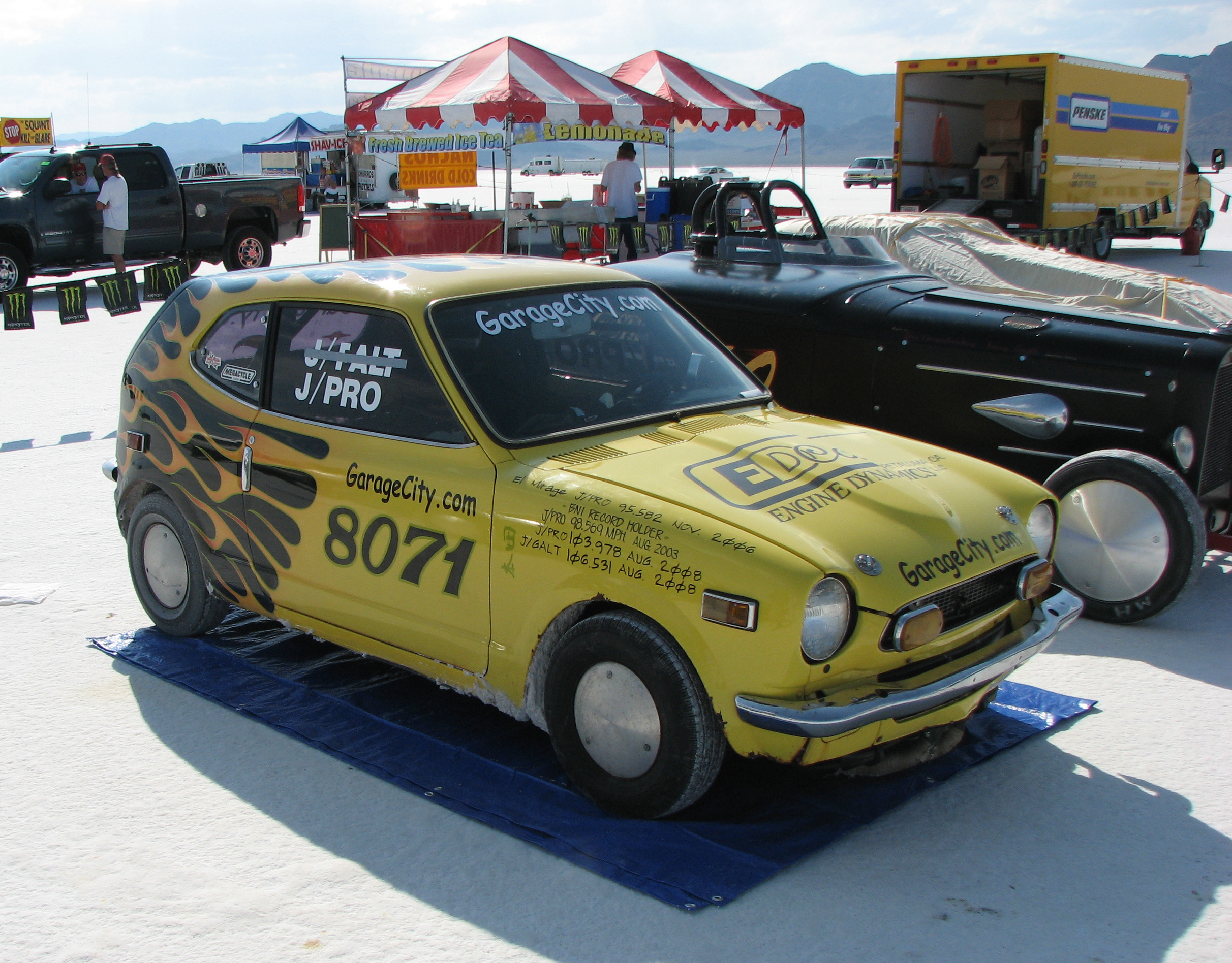 Evil Tweety, a Honda Z600 Coupe that currently holds the land speed record for 750cc stock body production cars (103.978 MPH set in August 2008).